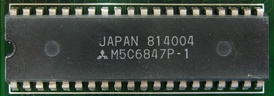 MC6847 video display generator clone manufactured by Mitsubishi Electric.